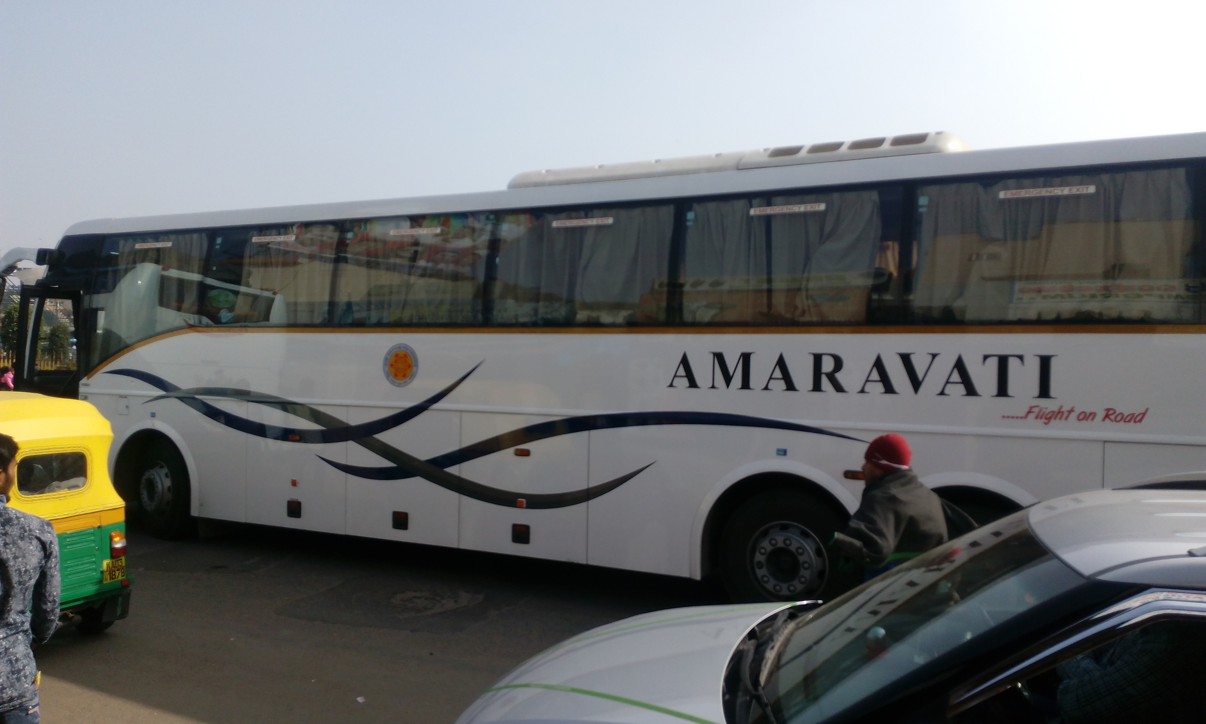 Kadapa-Banglore AMARAVATI Bus at KR Puram